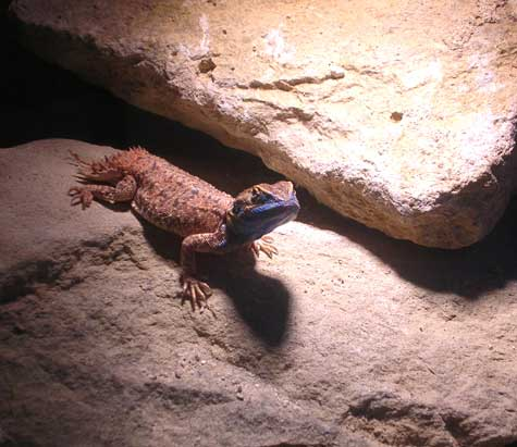 Laurent Dousset (private collection). Xenagama taylori (male).